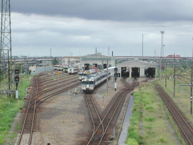 East Japan Railway Company (JR East) Niitsu Transportation Depot